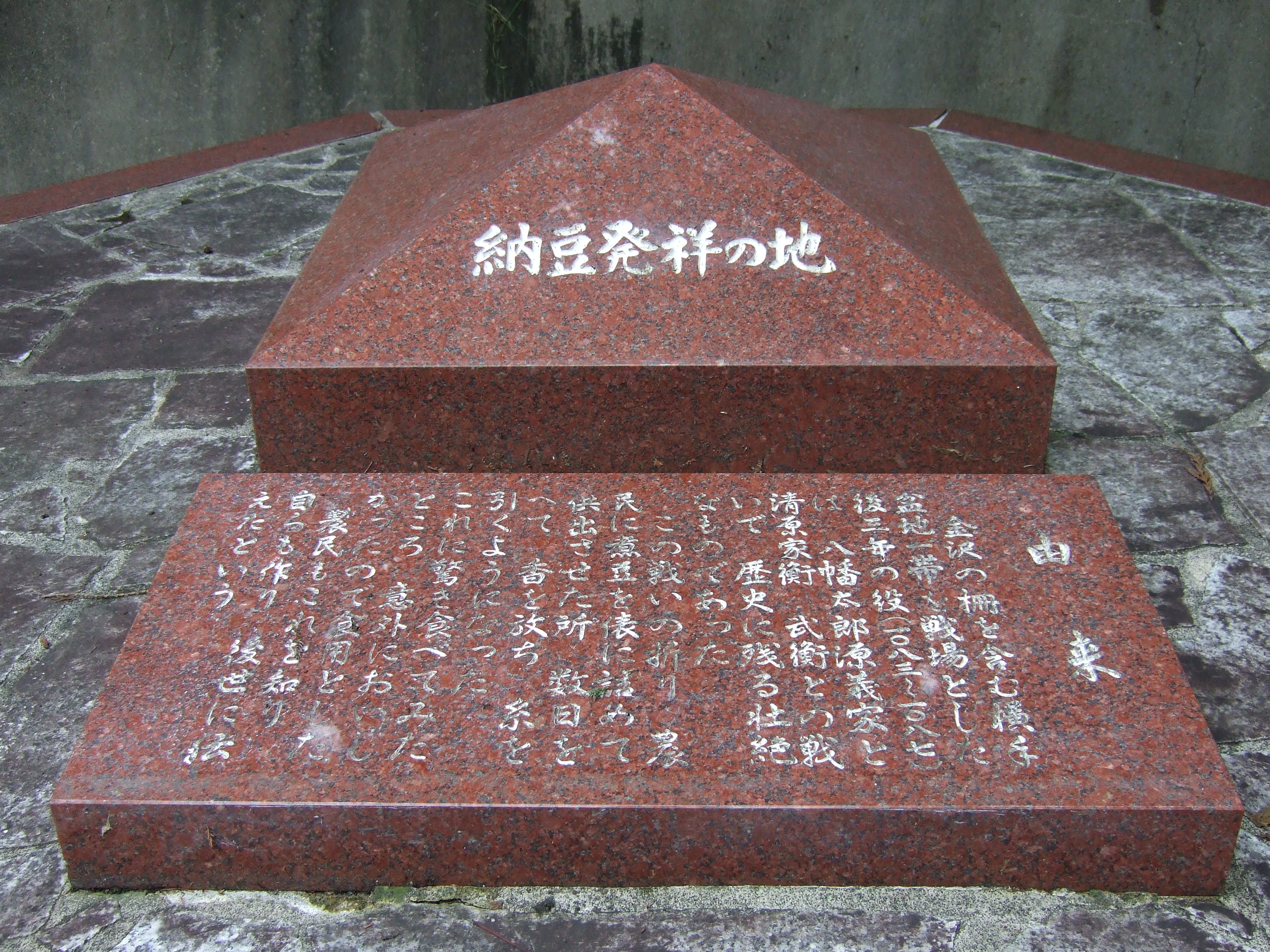 the monument of the cradle of Nattō, at Kanezawa-kouen, Yokote, Akita, Japan.